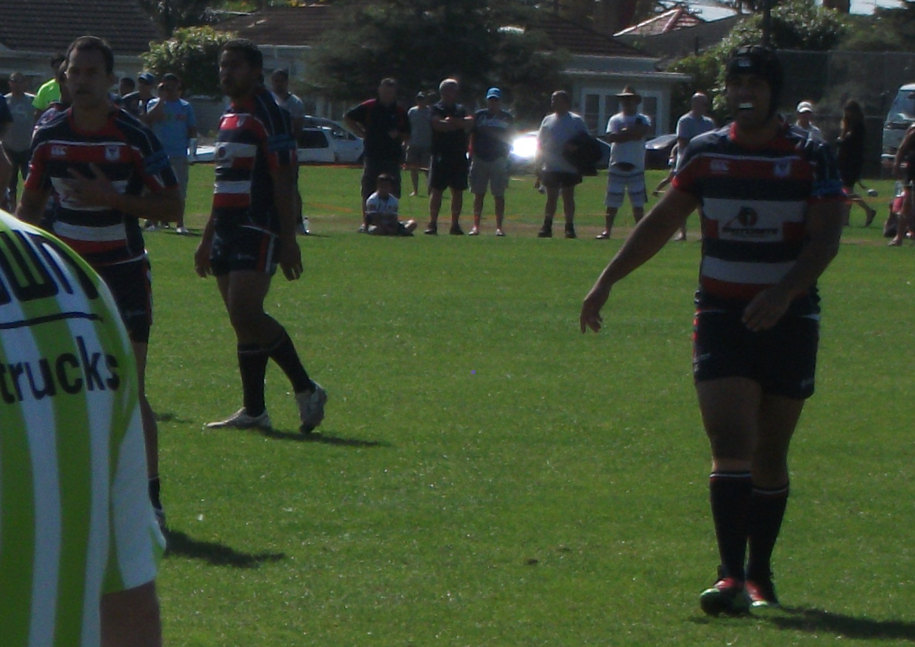 Point Chevalier Pirates v Te Atatu Roosters on 2 April 2011 at Walker Park